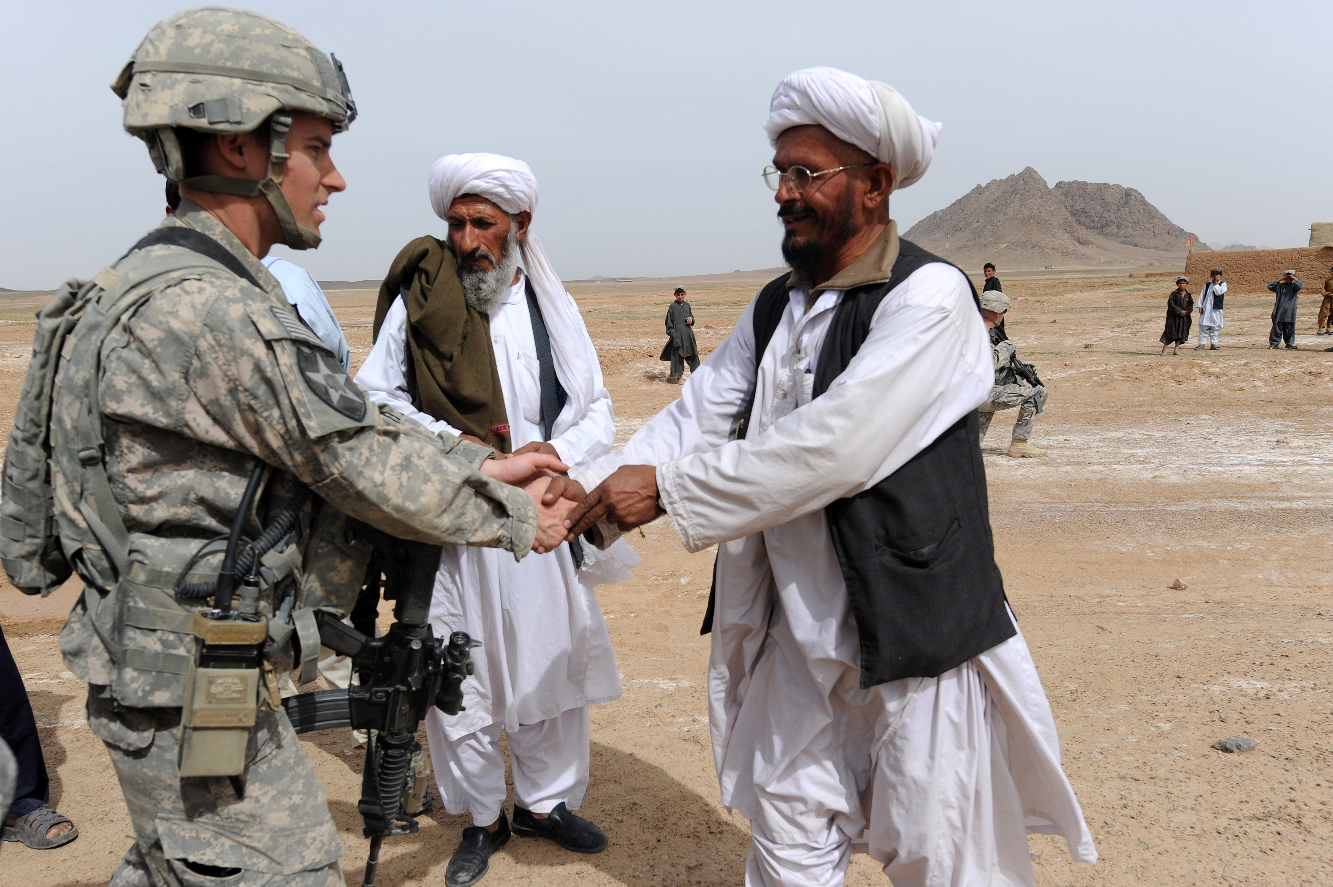 U.S. Army 1st Lt. David J. Leydet, with 3rd Platoon, Bear Troop, 8th Squadron, 1st Cavalry Regiment, greets an elder during a population engagement in Taktehpol, Afghanistan, on March 2, 2010.